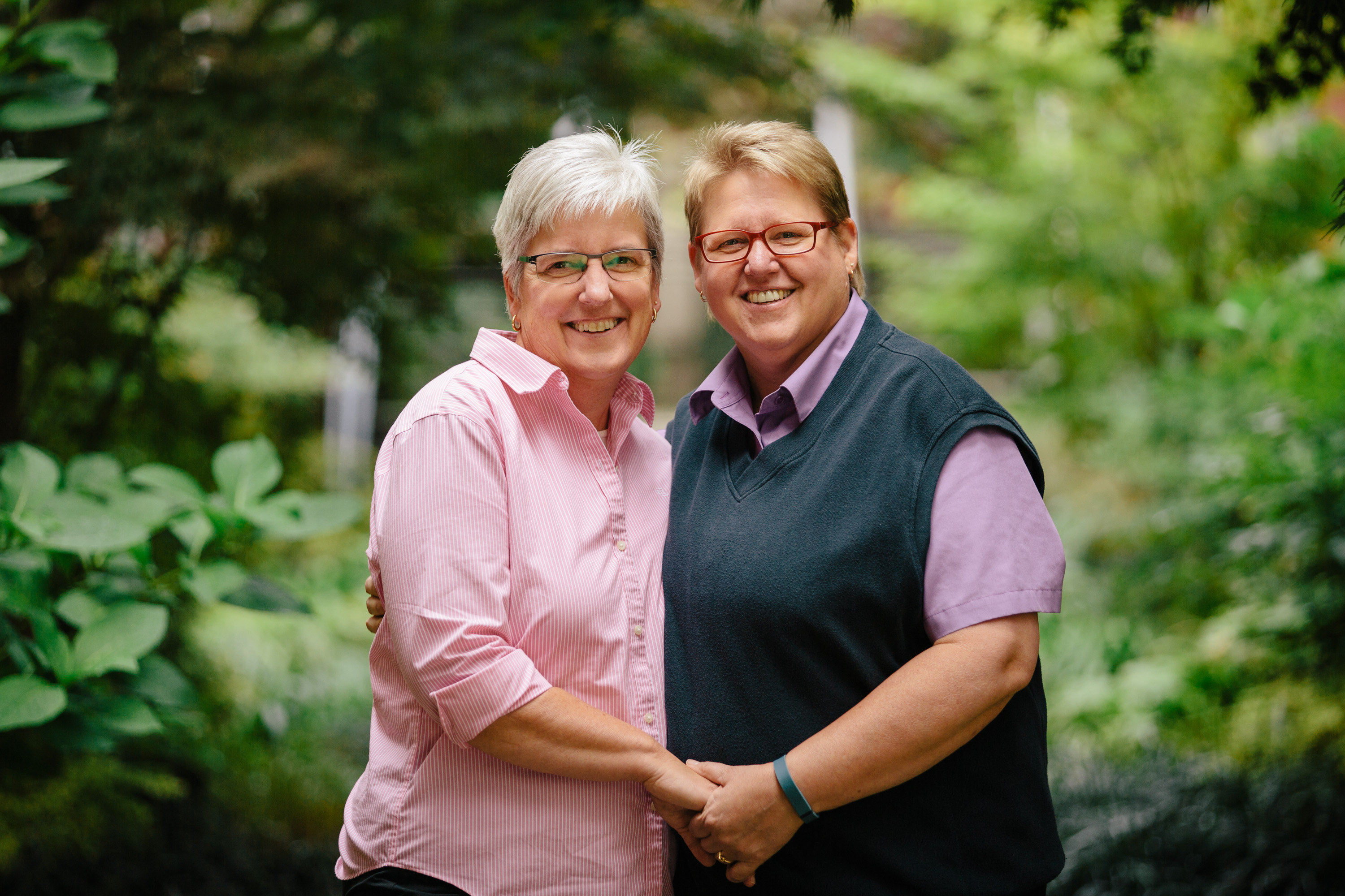 Deanna Geiger and Janine Nelson, lead plaintiffs in Geiger v. Kitzhaber, the federal lawsuit to establish a right to marriage equality for gay and lesbian couples in Oregon